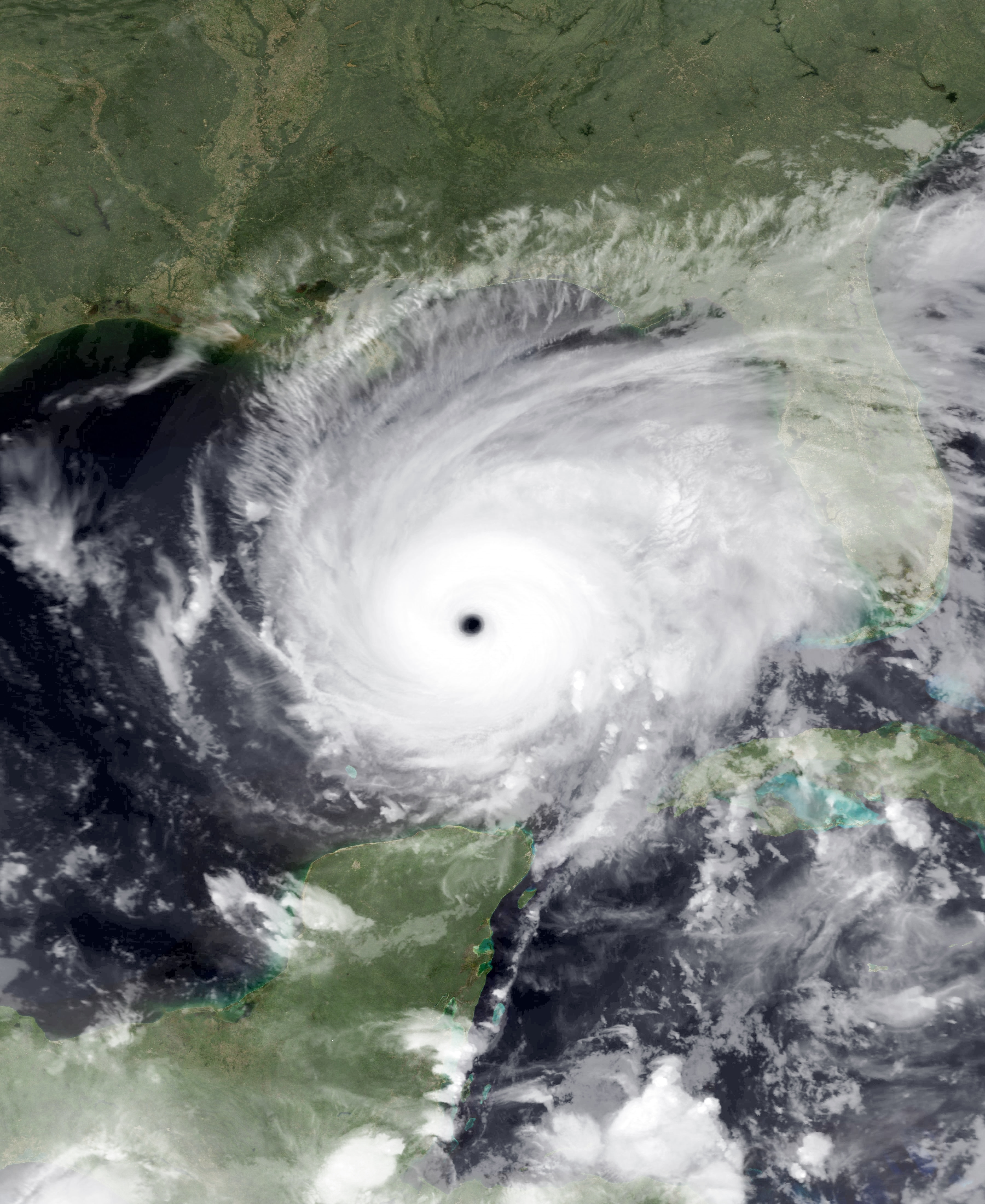 Hurricane Rita on September 22, 2005